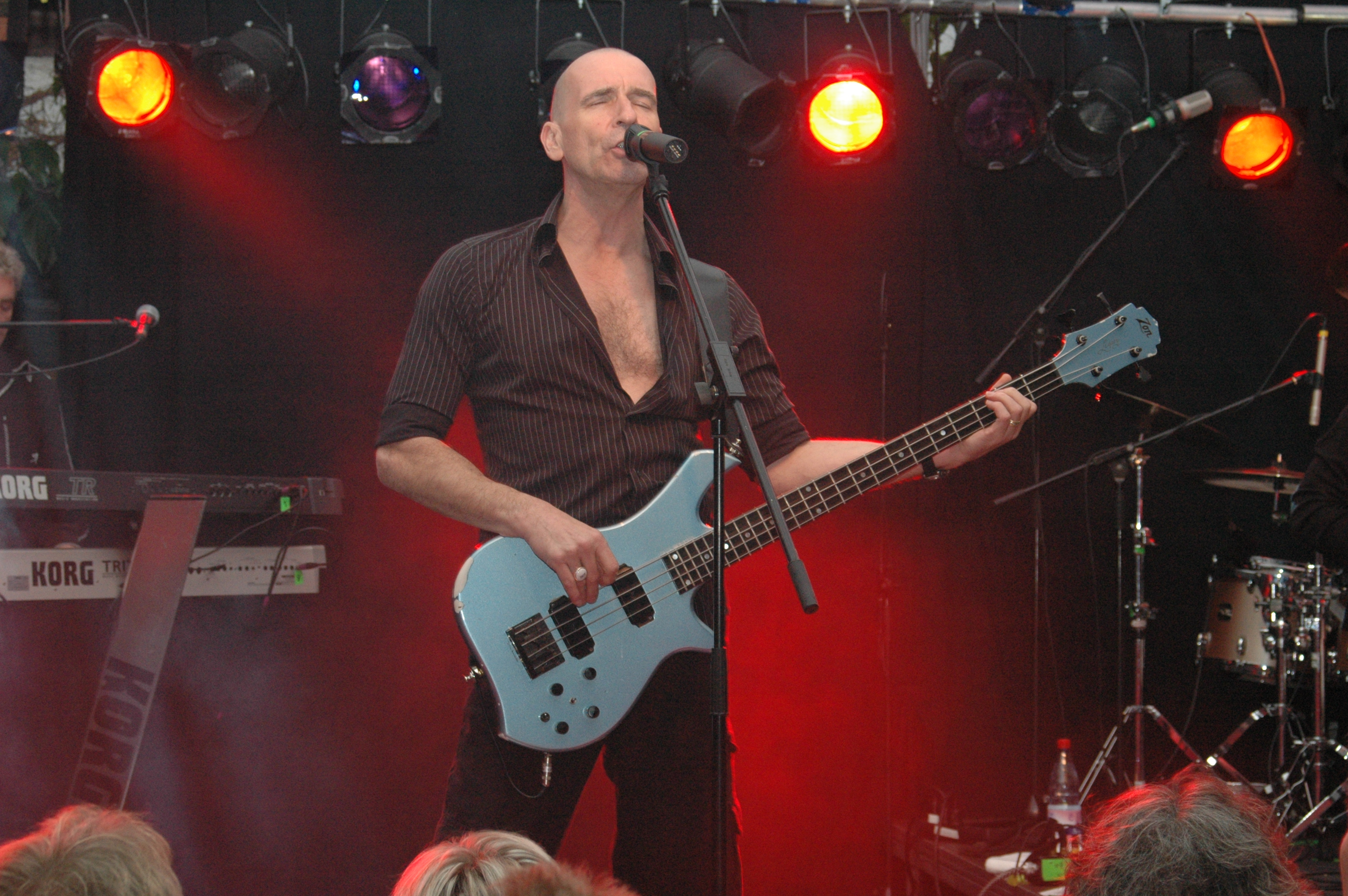 Michael Sadler, frontman of the canadian rock band saga, in front of the crowd in a concert in dexheim, germany.